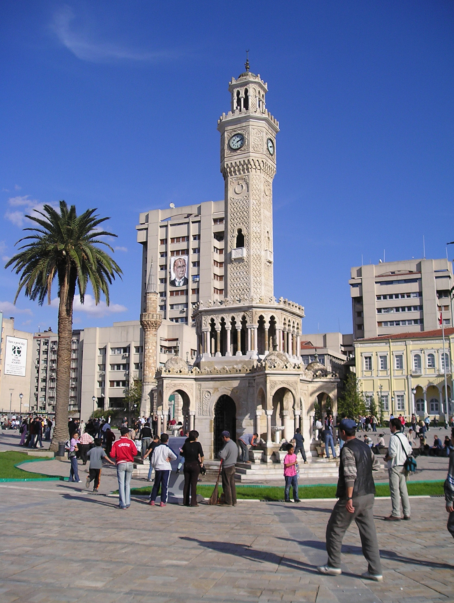 The Clock Tower (Saat Kulesi) in central Izmir. Photo by Bertil Videt, 2003.